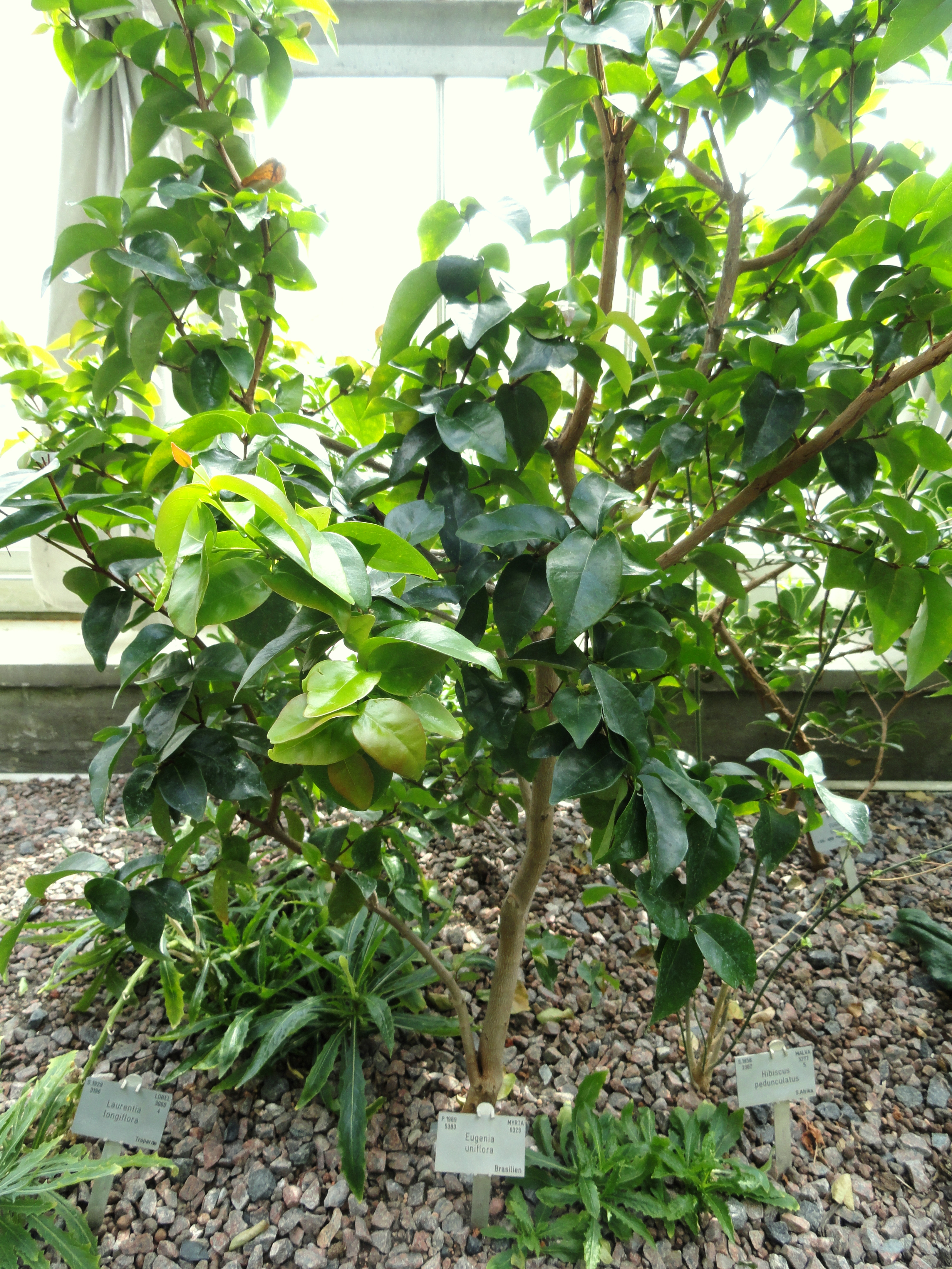 Botanical specimen in the University of Copenhagen Botanical Garden, Copenhagen, Denmark.